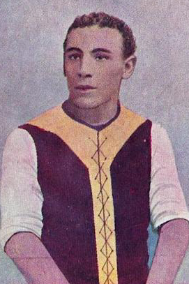 Cigarette card of Tom Banks from the 1905 Wills Past and Present Champions series.